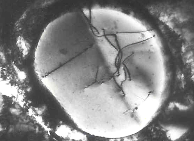 TEM micrograph of dislocations 2 (precipitate and dislocations in austenitic stainless steel) Photomicrograph by Wikityke